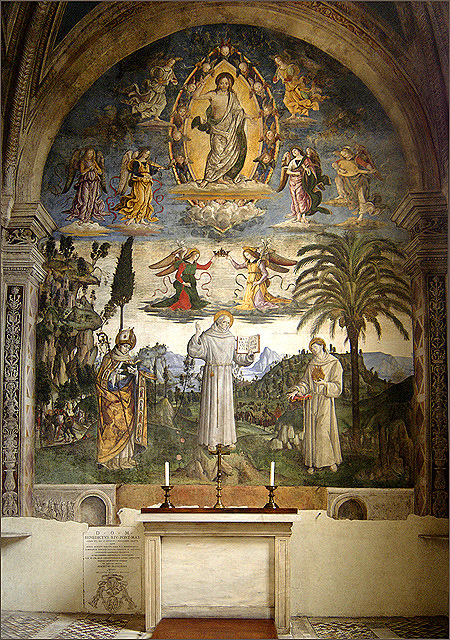 Bernardino of Siena between Louis of Toulouse and Anthony of Padua, by Pinturicchio. Capela Bufalini, interior of Ara Coeli, Rome.